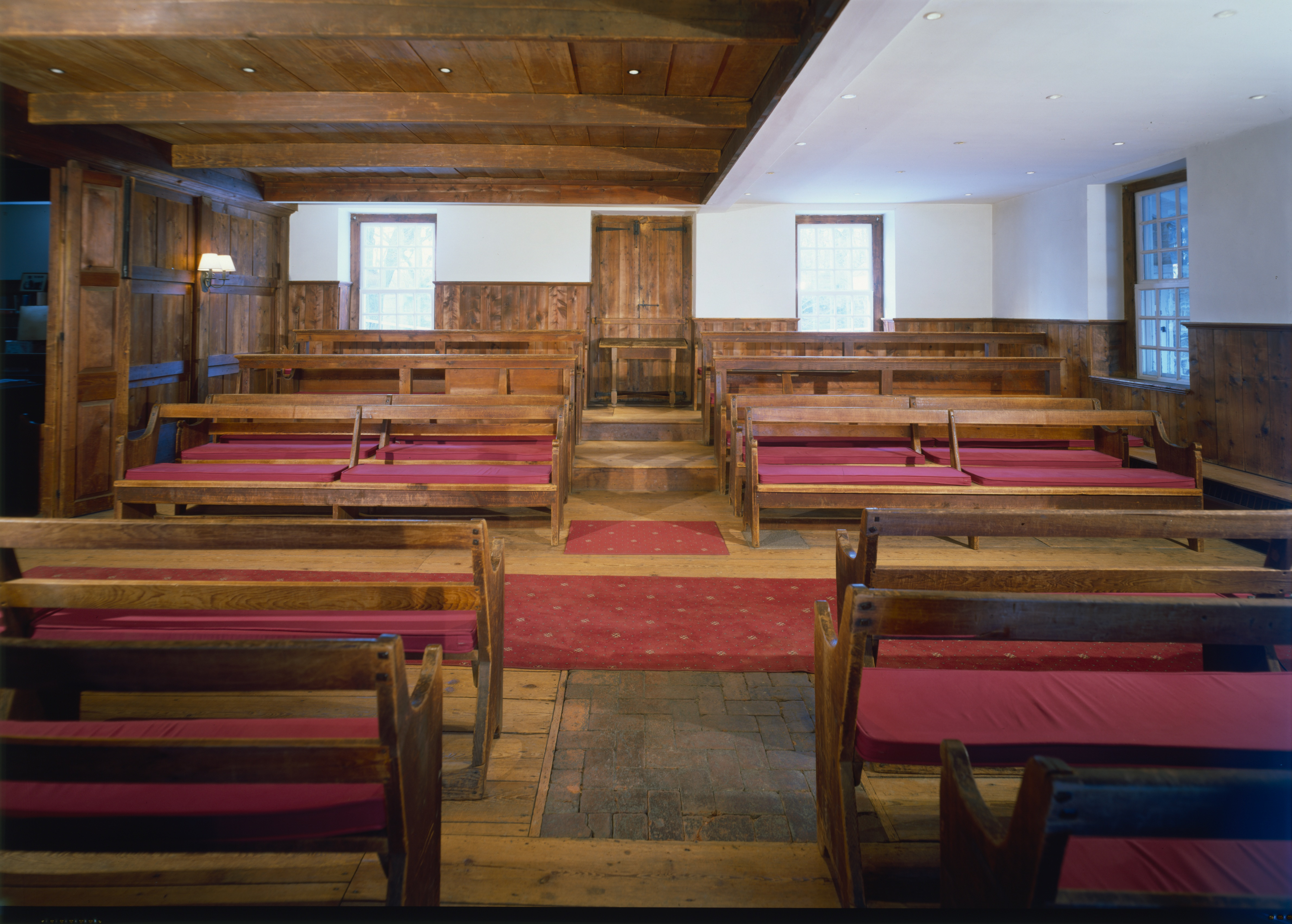 Interior of the Buckingham Friends Meeting House, Bucks County, Pennsylvania. A National Historic Landmark. Uploaded from the Library of Congress\HABS website, but the usual data has not been uploaded there. Photo likely taken by Jack E. Boucher